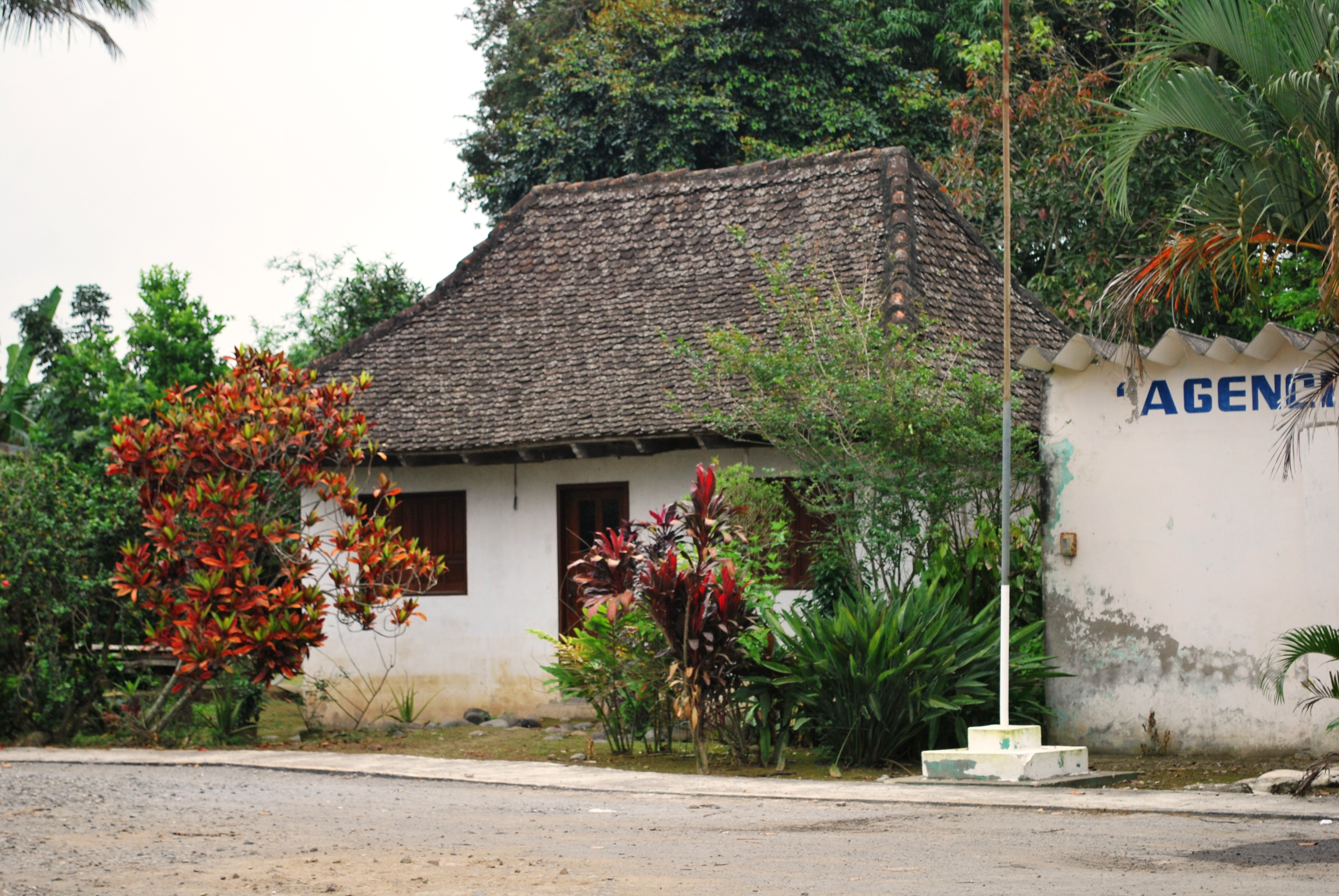 French style house in Paso de Telaya, San Rafael, Veracruz